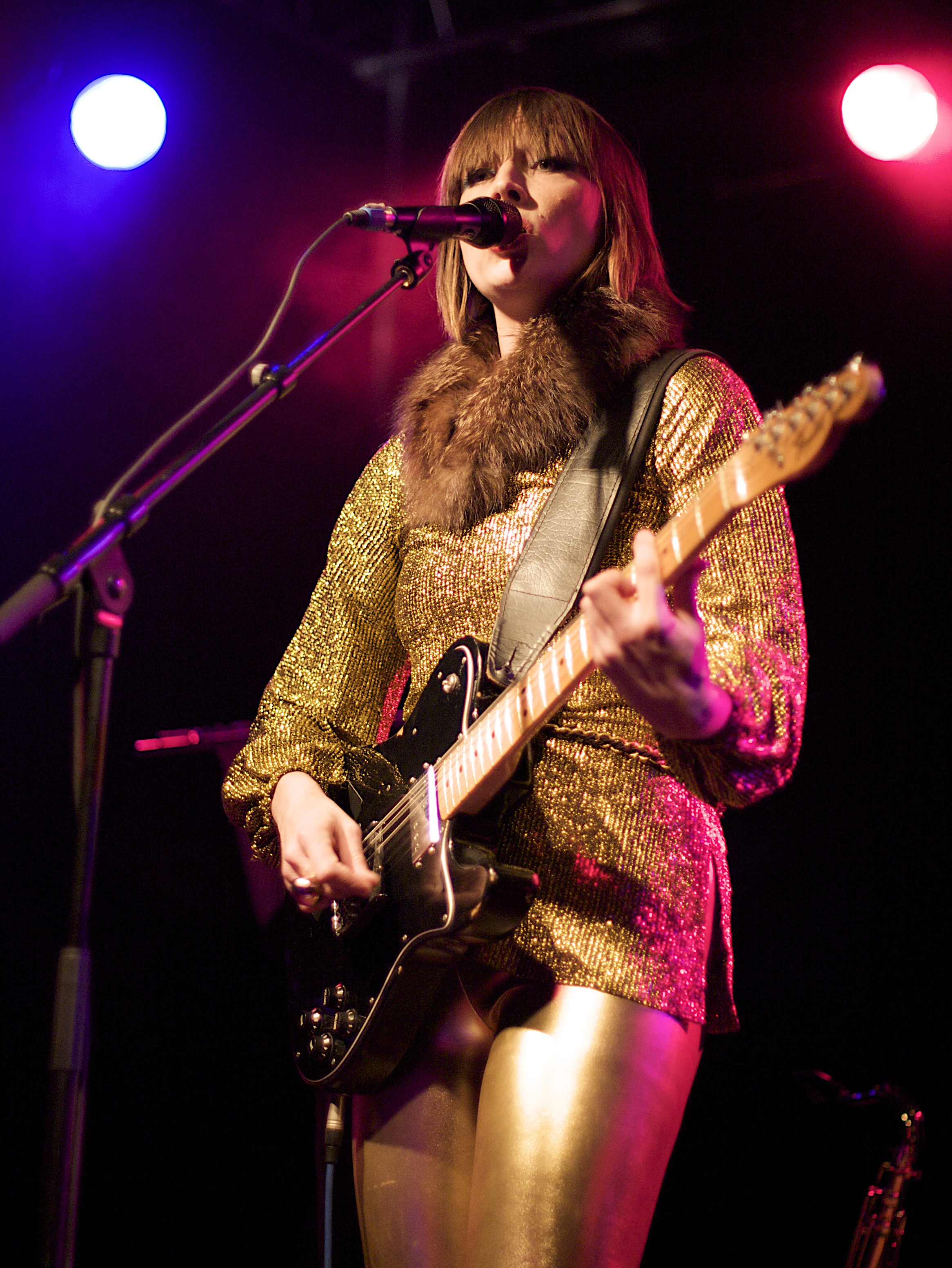 Swedish singer/songwriter Jenny Wilson. Seen here performing at Studenterhuset in Aalborg, Denmark.